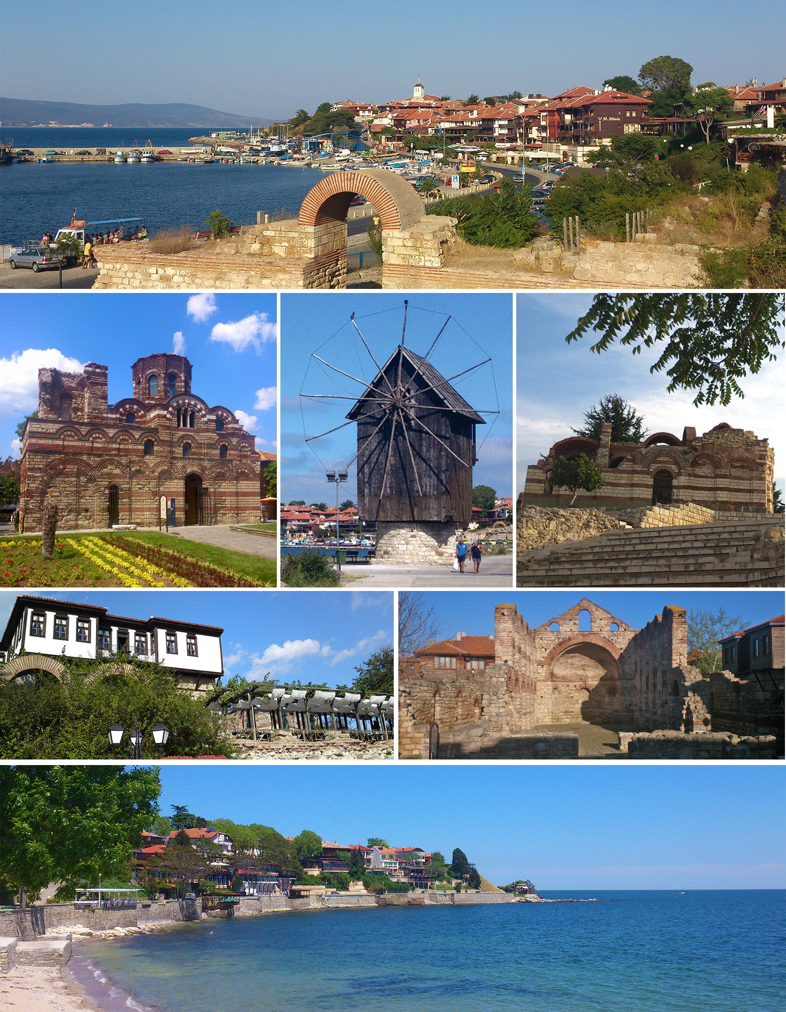 A collage of photos from Nessebar, serving as a lead image for the relevant article.